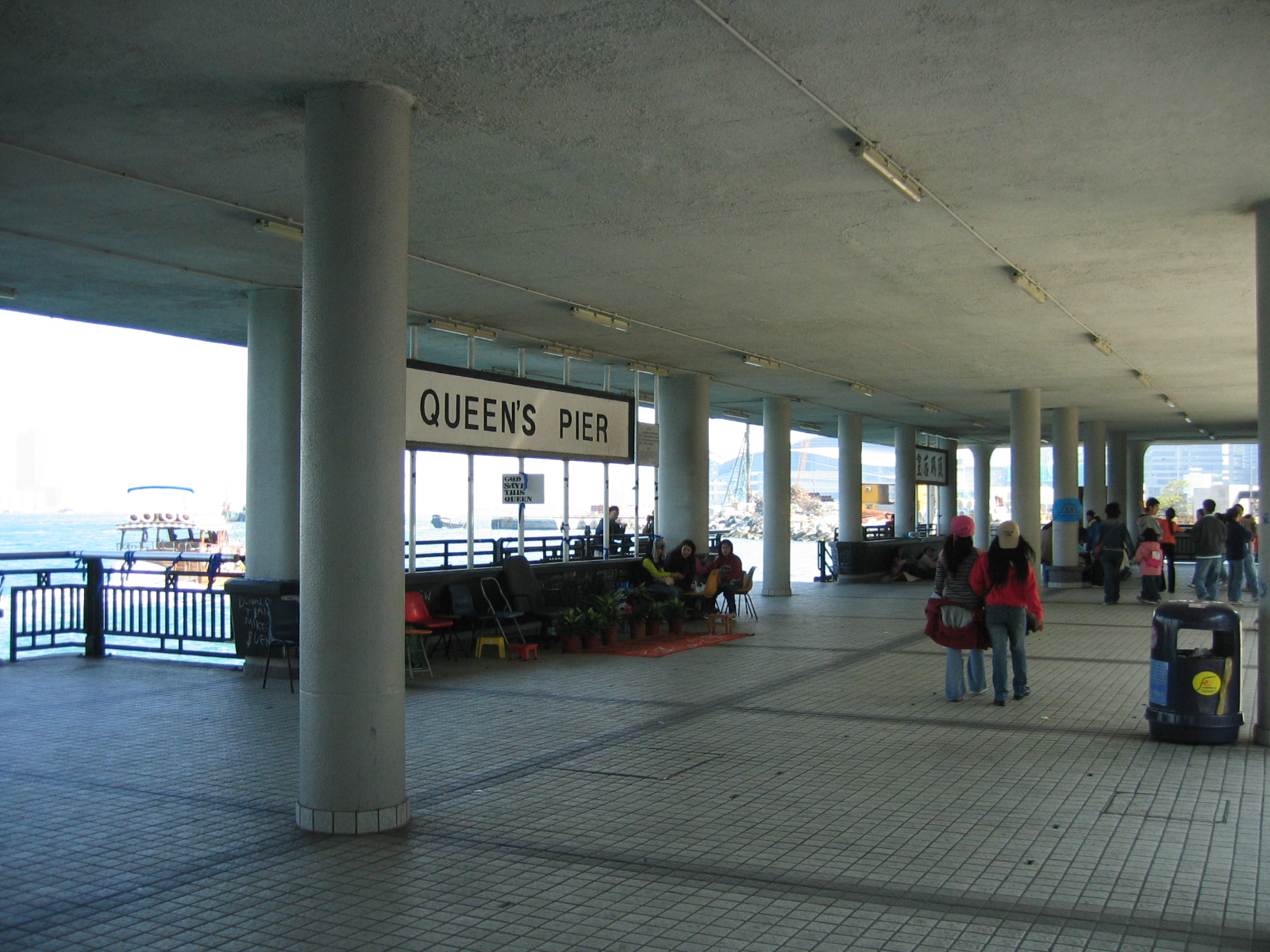 Queen's Pier Interior